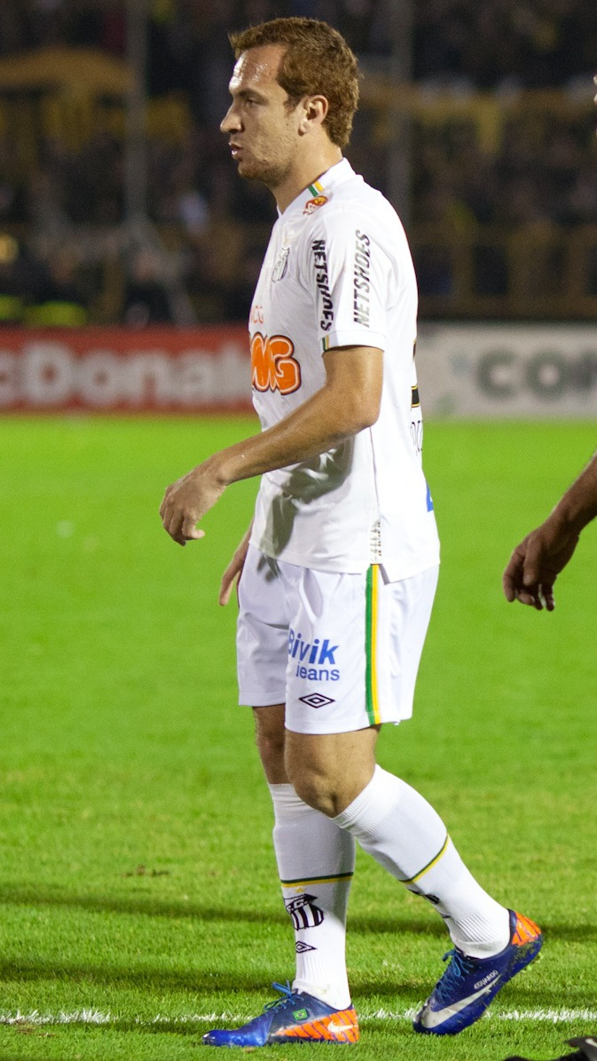 Zé Eduardo of Santos during the first leg of the 2011 Copa Libertadores final between Peñarol and Santos, at the Centenario stadium.